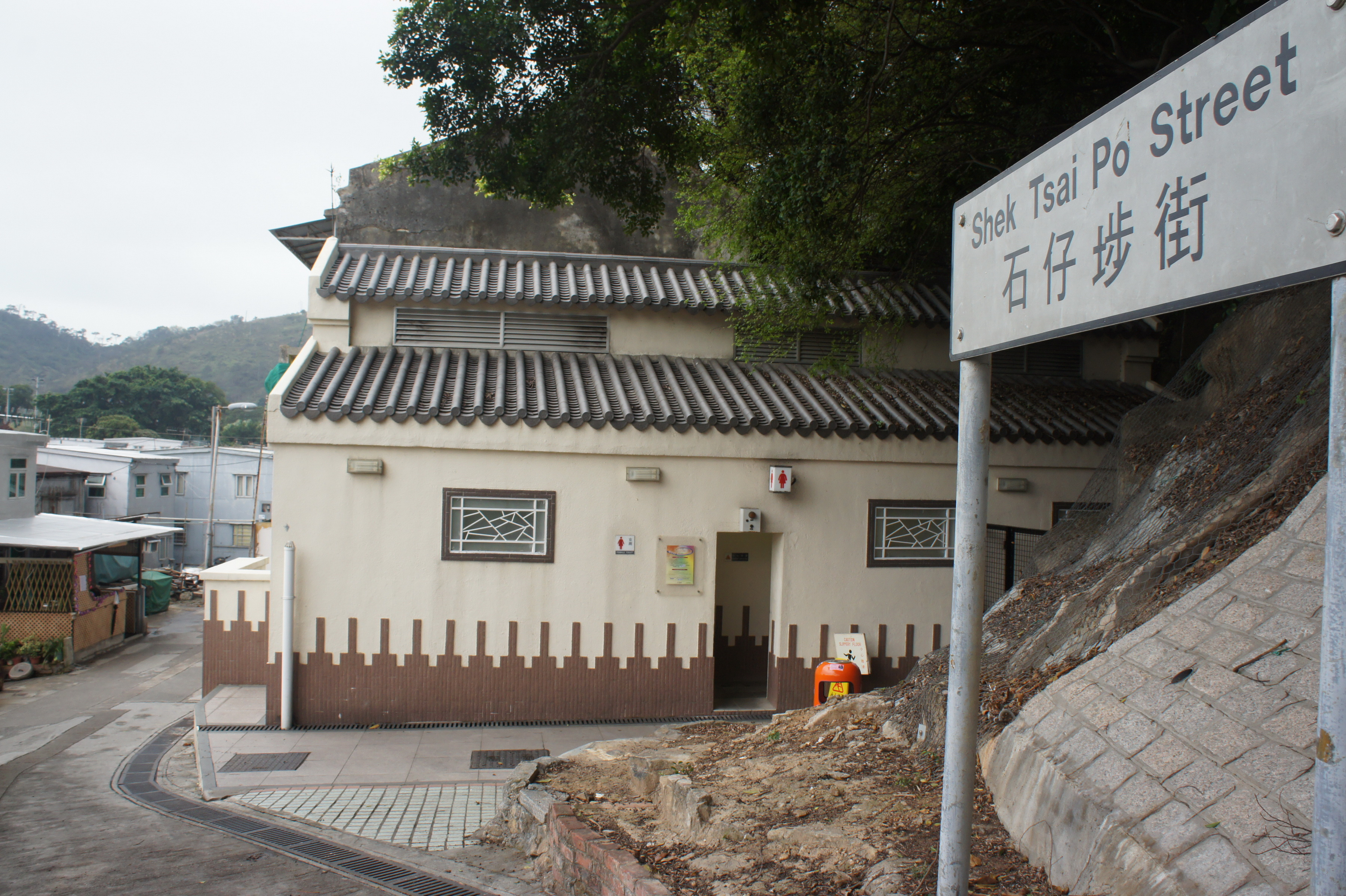 Shek Tsai Po Street Public Toilet, Tai O, Lantau Island, Hong Kong.